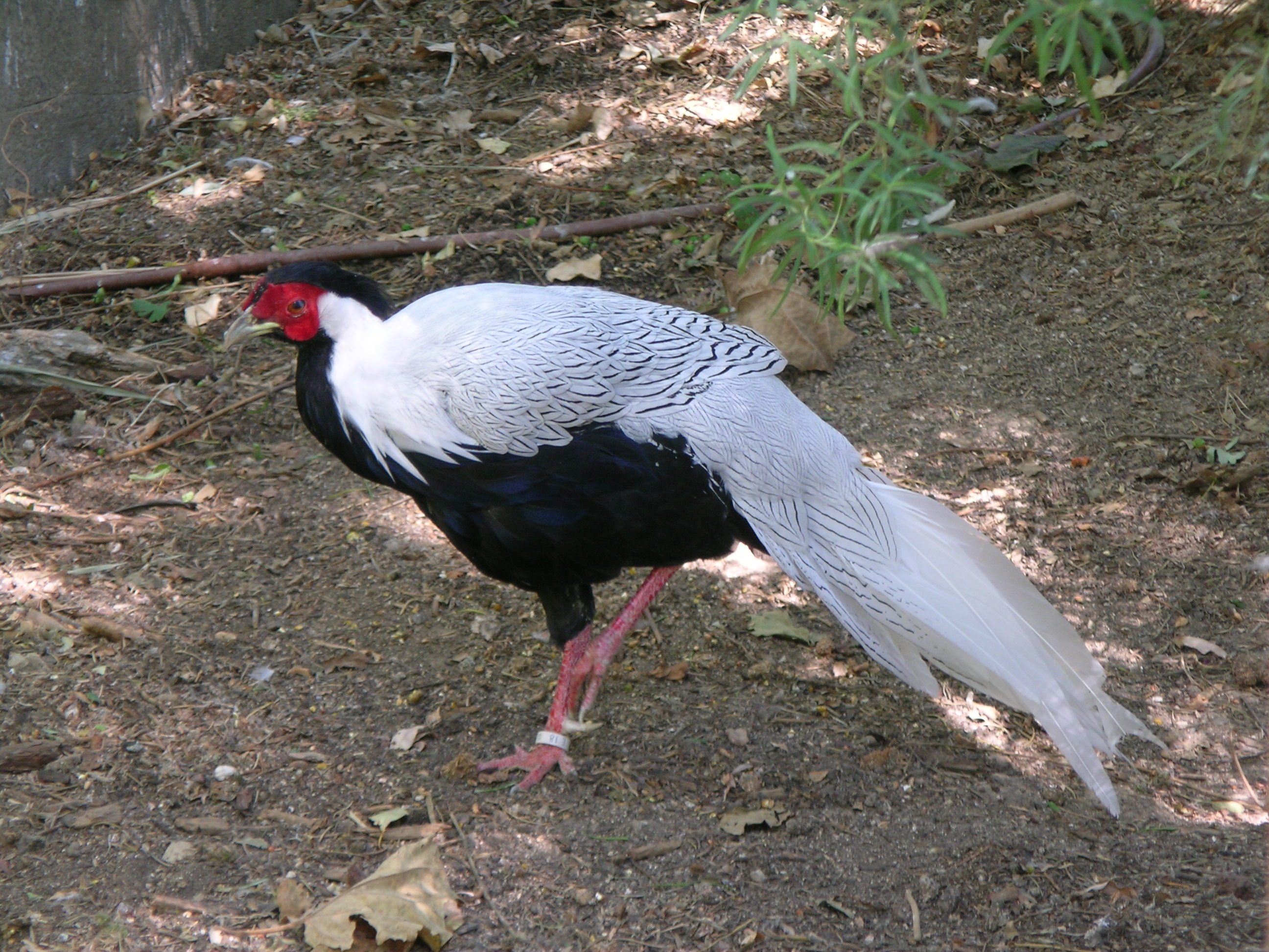 Lophura nycthemera Faisán plateado